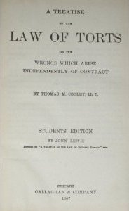 Title page of Thomas M[cIntyre] Cooley (1907) A Treatise on the Law of Torts or the Wrongs which Arise Independently of Contract, students' edition, Chicago, Ill.: Callaghan & Co., OCLC 1595776.